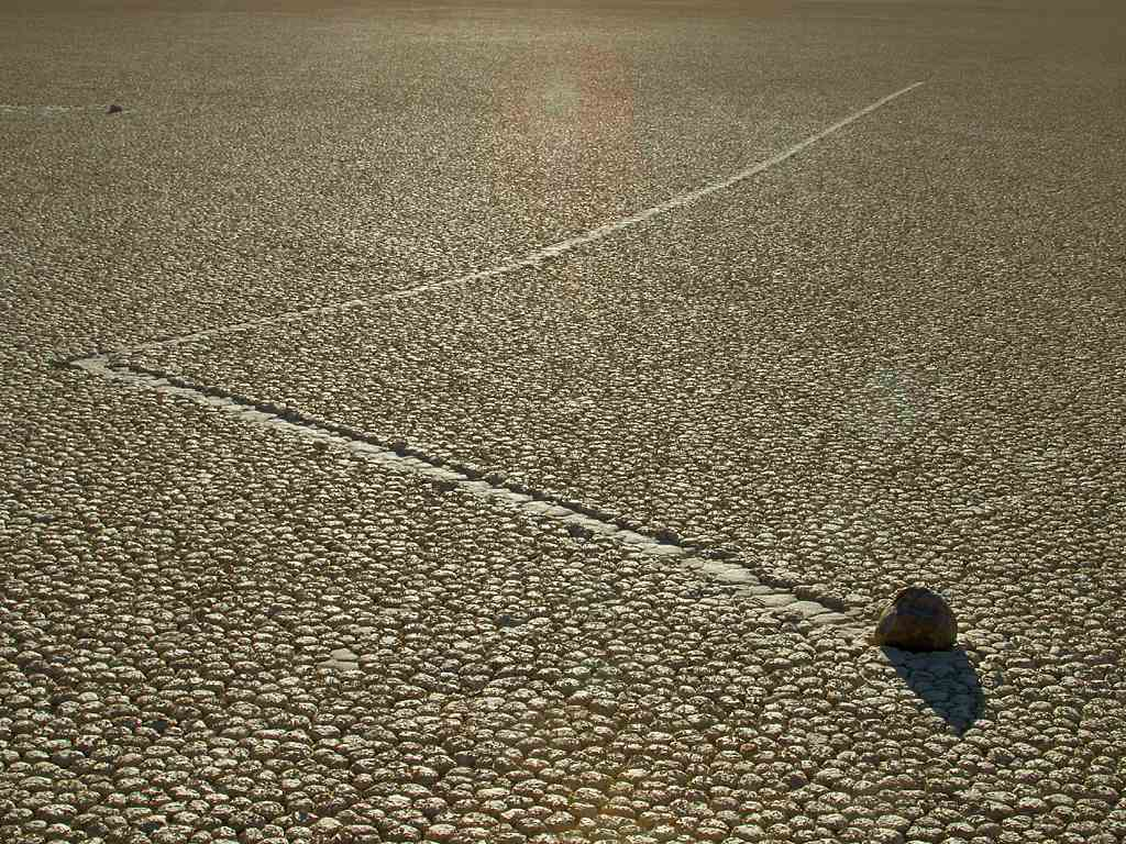 A view of a rock sliding in Racetrack Playa.